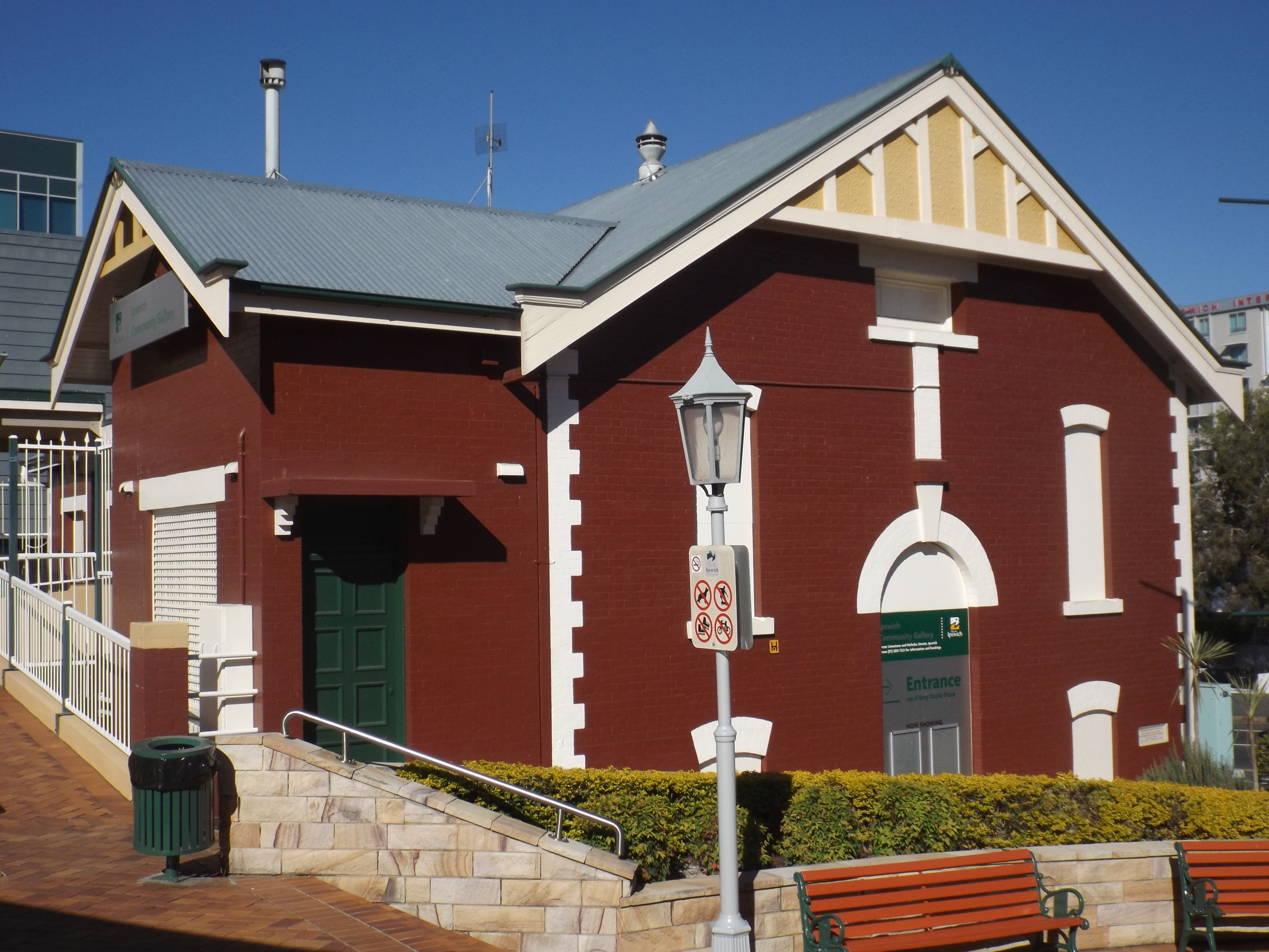 Photo of St Paul's Young Men's Club at Ipswich, Queensland, Australia.